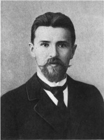 Wacław Worowski, Polish and Russian revolutioner